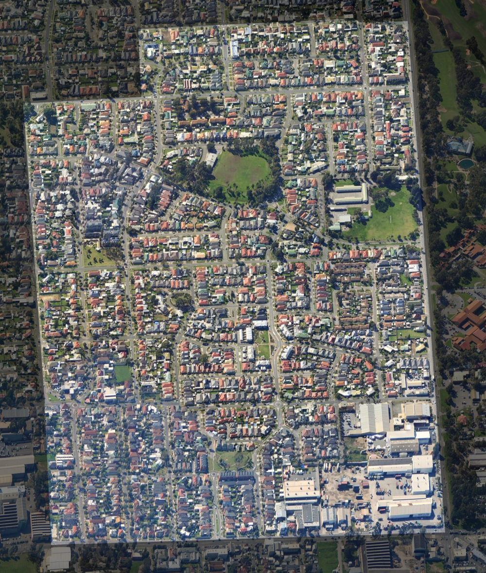 Aerial image of suburb of Ferryden Park, South Australia